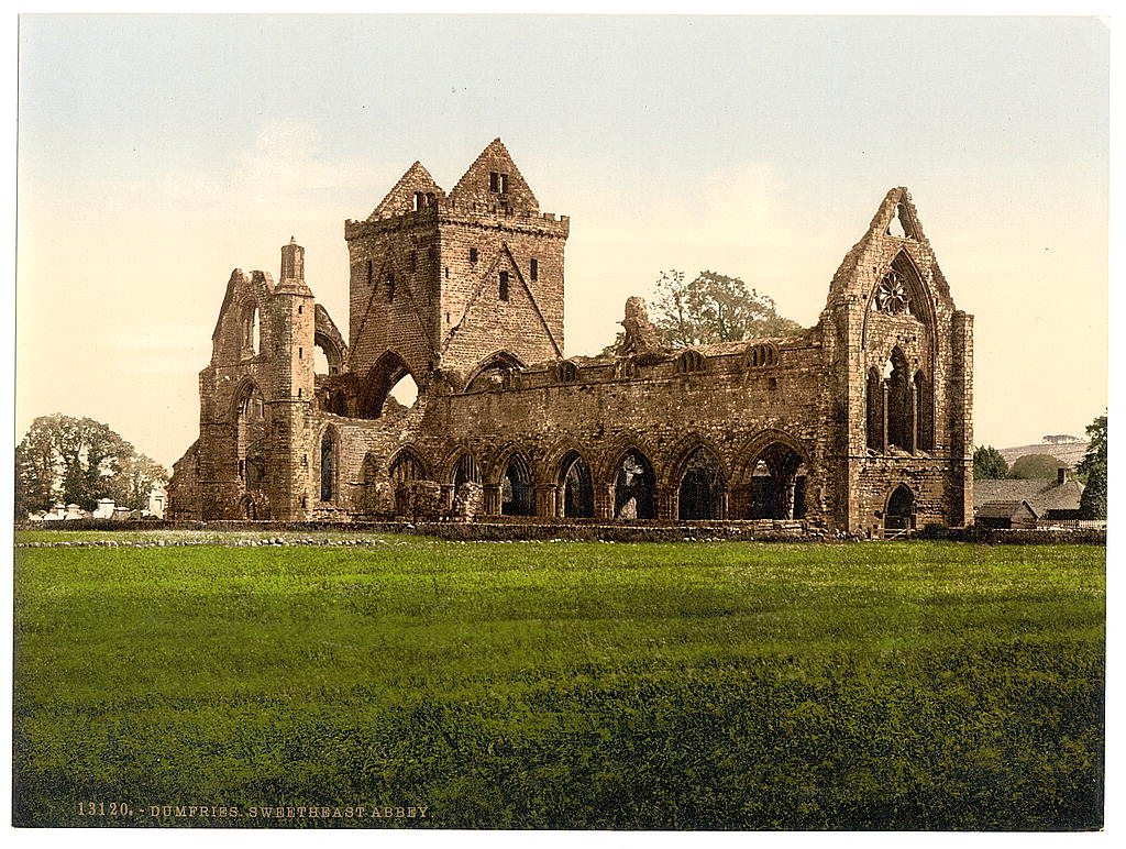 [Sweetheart Abbey, Dumfries, Scotland] [between ca. 1890 and ca. 1900]. 1 photomechanical print : photochrom, color. Notes: Title from the Detroit Publishing Co., catalogue J--foreign section. Detroit, Mich. : Detroit Photographic Company, 1905. Print no. "13120". Forms part of: Views of landscape and architecture in Scotland in the Photochrom print collection. Subjects: Scotland--Dumfries. Format: Photochrom prints--Color--1890-1900. Rights Info: No known restrictions on reproduction. Repository: Library of Congress, Prints and Photographs Division, Washington, D.C. 20540 USA, Part Of: Views of landscape and architecture in Scotland (DLC) 2001703567 More information about the Photochrom Print Collection is available at Persistent URL: Call Number: LOT 13407, no. 061 [item]